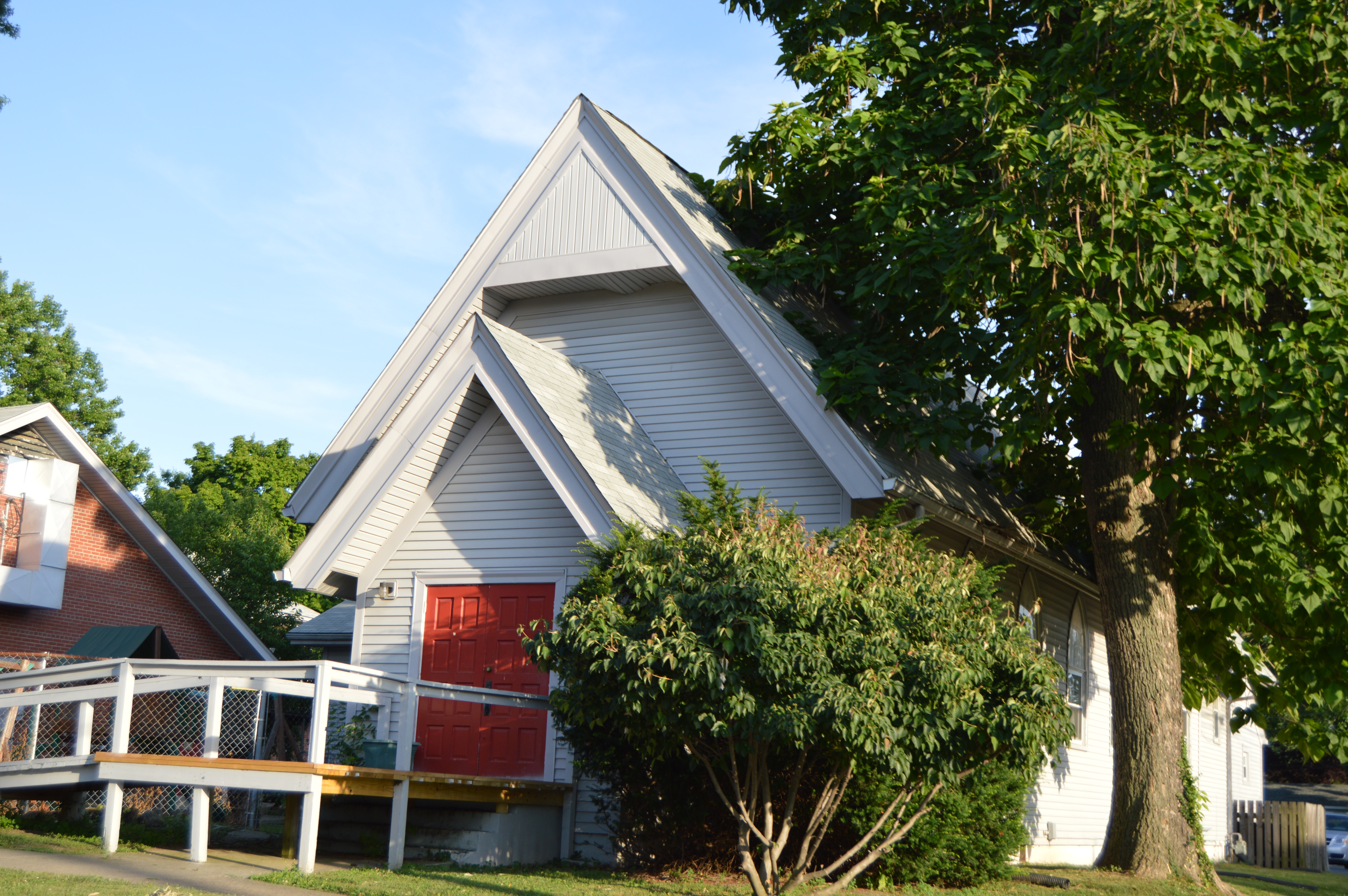 Front and western side of Immanuel Chapel Protestant Episcopal Church), located at 410 Fairmont Avenue in Louisville, Kentucky, United States. Built in 1909, it is listed on the National Register of Historic Places.